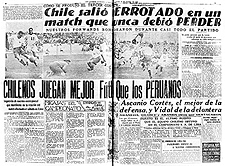 Newspaper article published in Chile after the country's national team lost against Peru in the 1935 South American Championship.